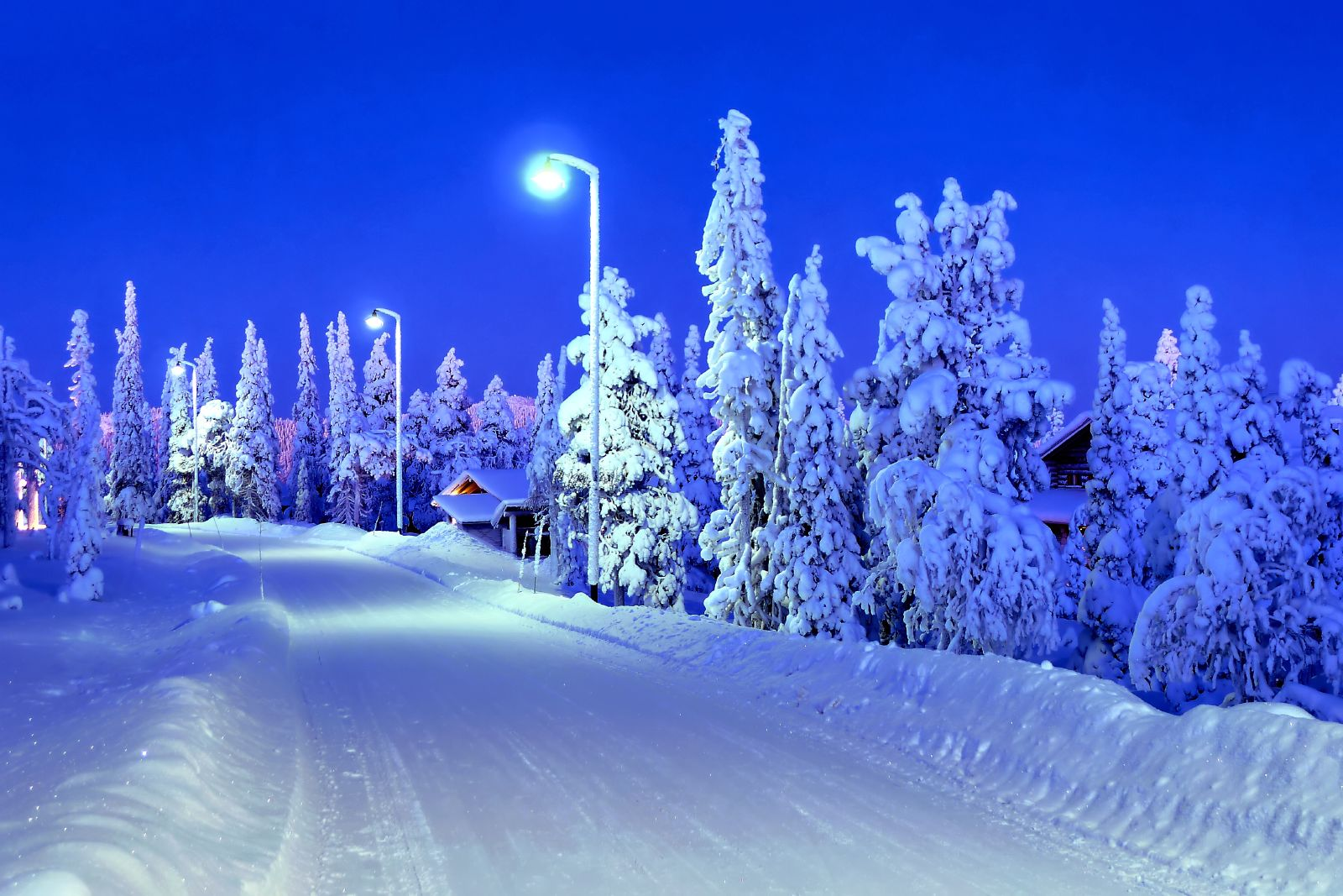 A snowy road in Ruka, Finland